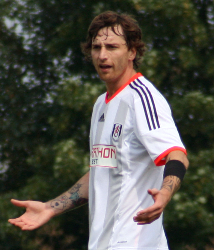 Fernando Amorebieta in action for Fulham in July 2014.